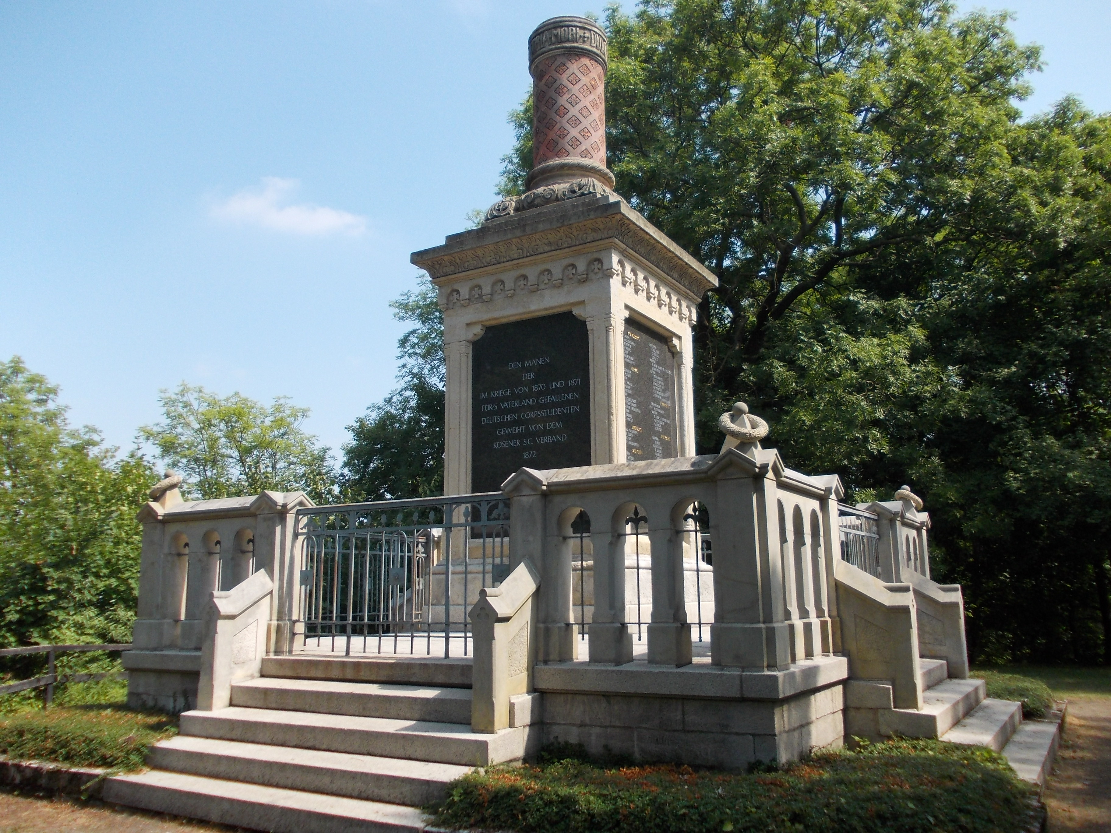 Franco-Prussian War memorial near Rudelsburg Castle (Naumburg, district: Burgenlandkreis, Saxony-Anhalt)